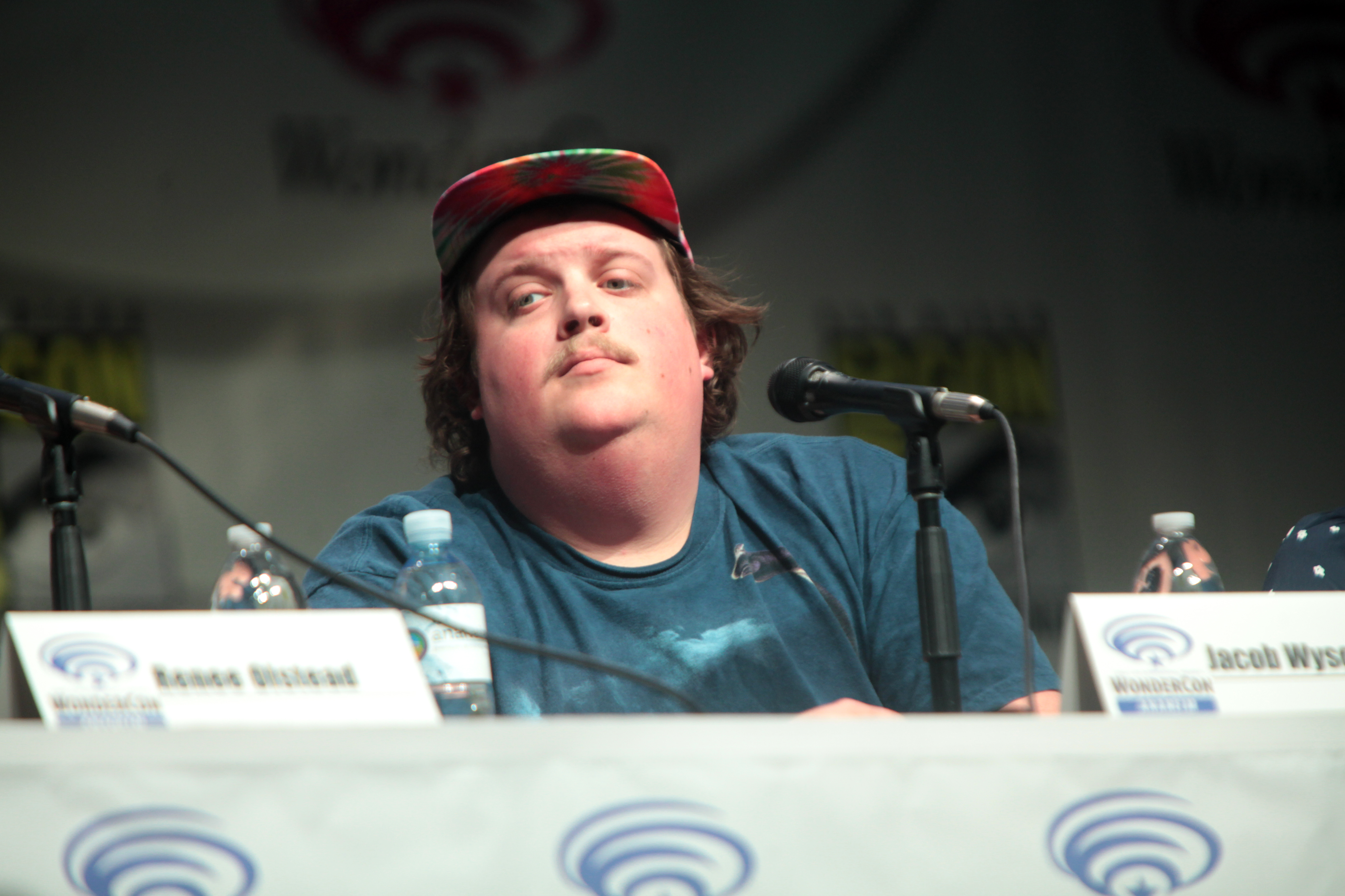 Jacob Wysocki speaking at the 2015 Wondercon, for "Unfriended", at the Anaheim Convention Center in Anaheim, California.